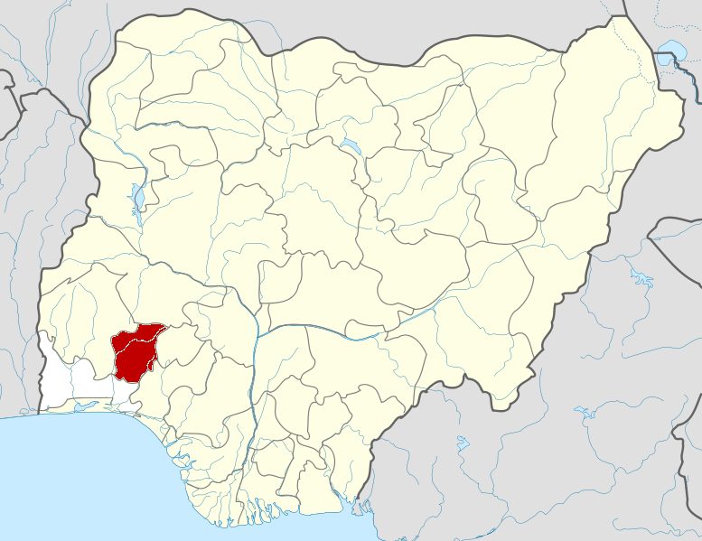 Map locator of Nigeria.